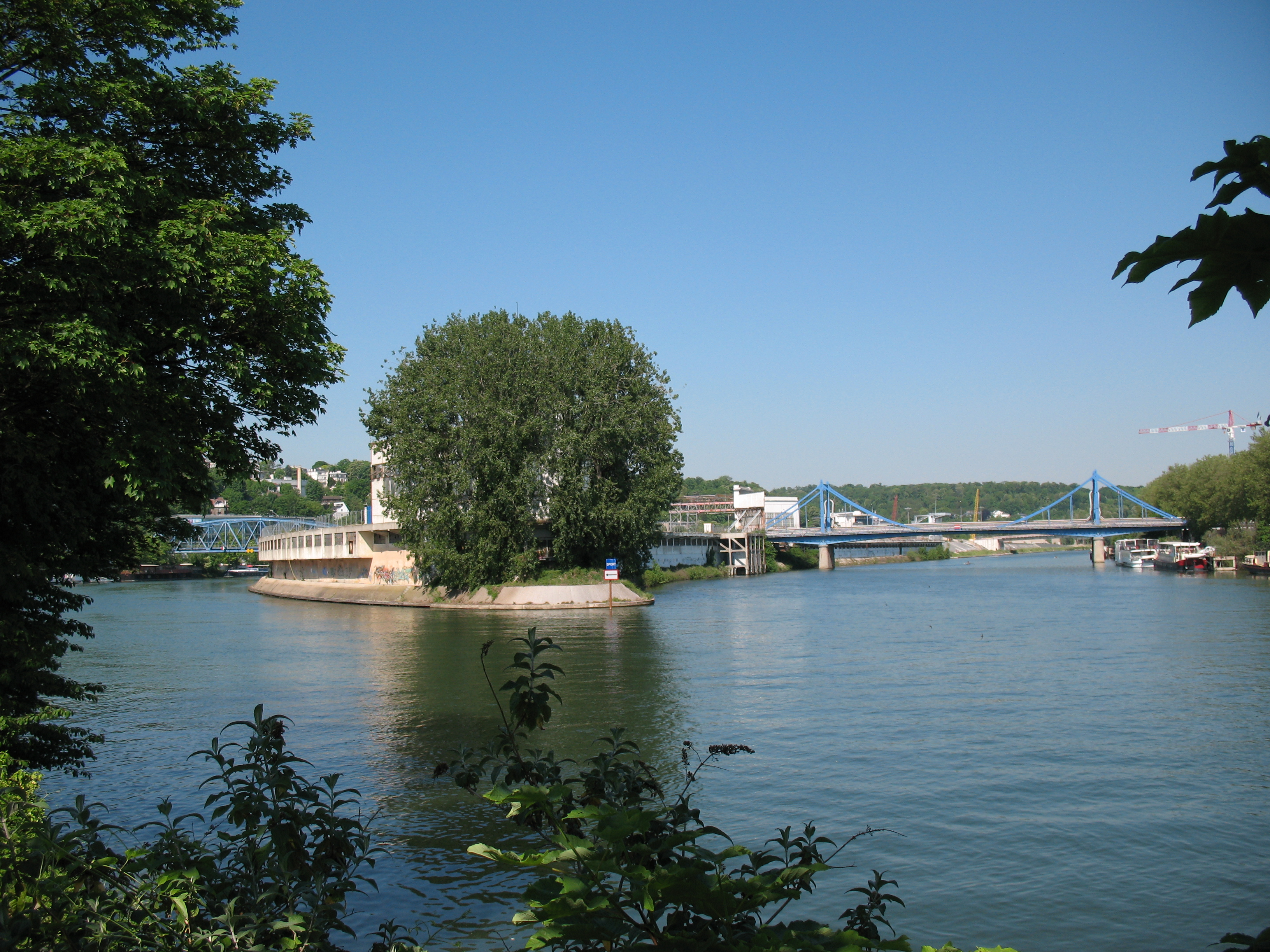 Île Seguin, seen from upstream (Île St-Germain), showing the bridges Daydé and Seibert (old Renault Factory)